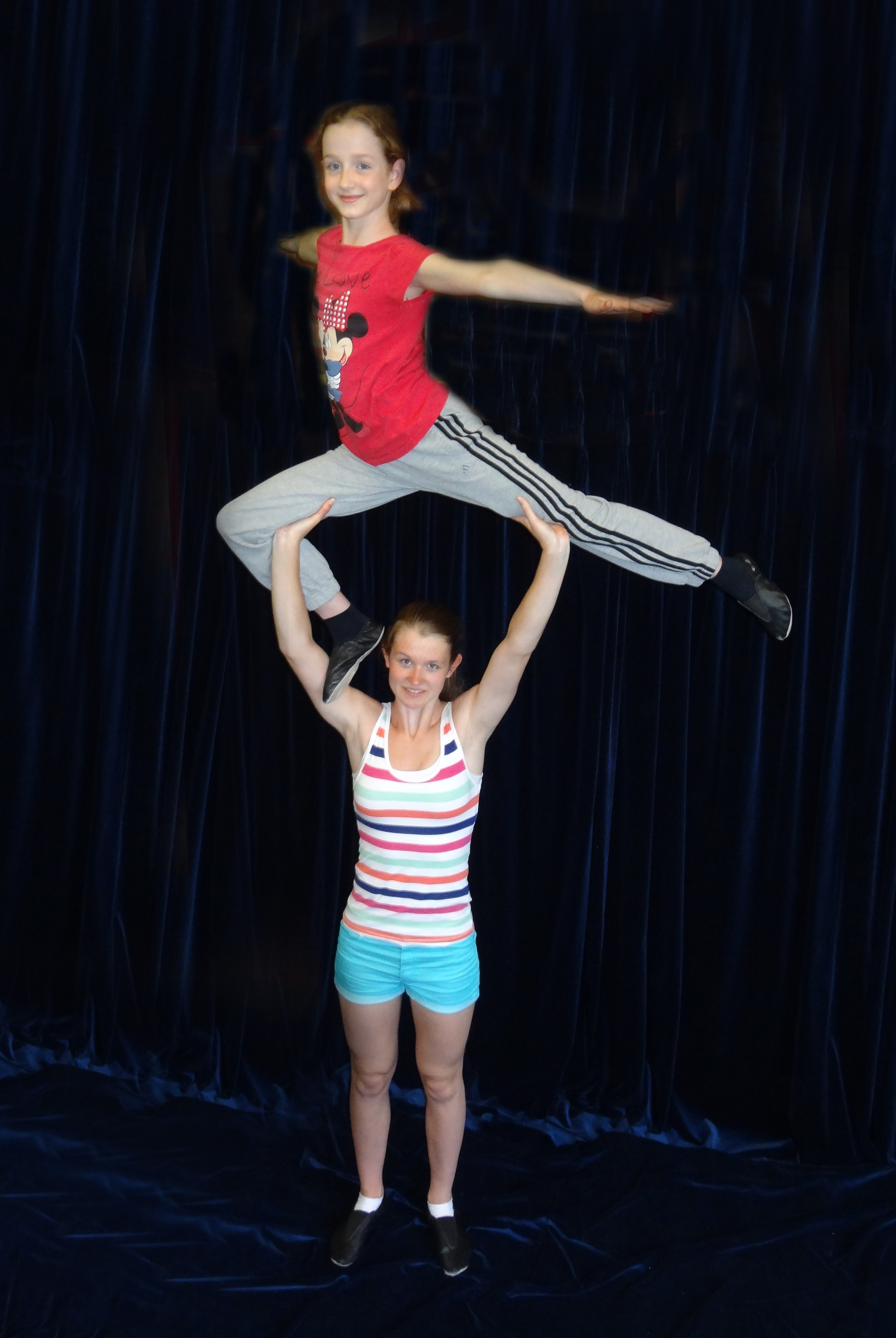 Skillzgroup TwoB from Holland